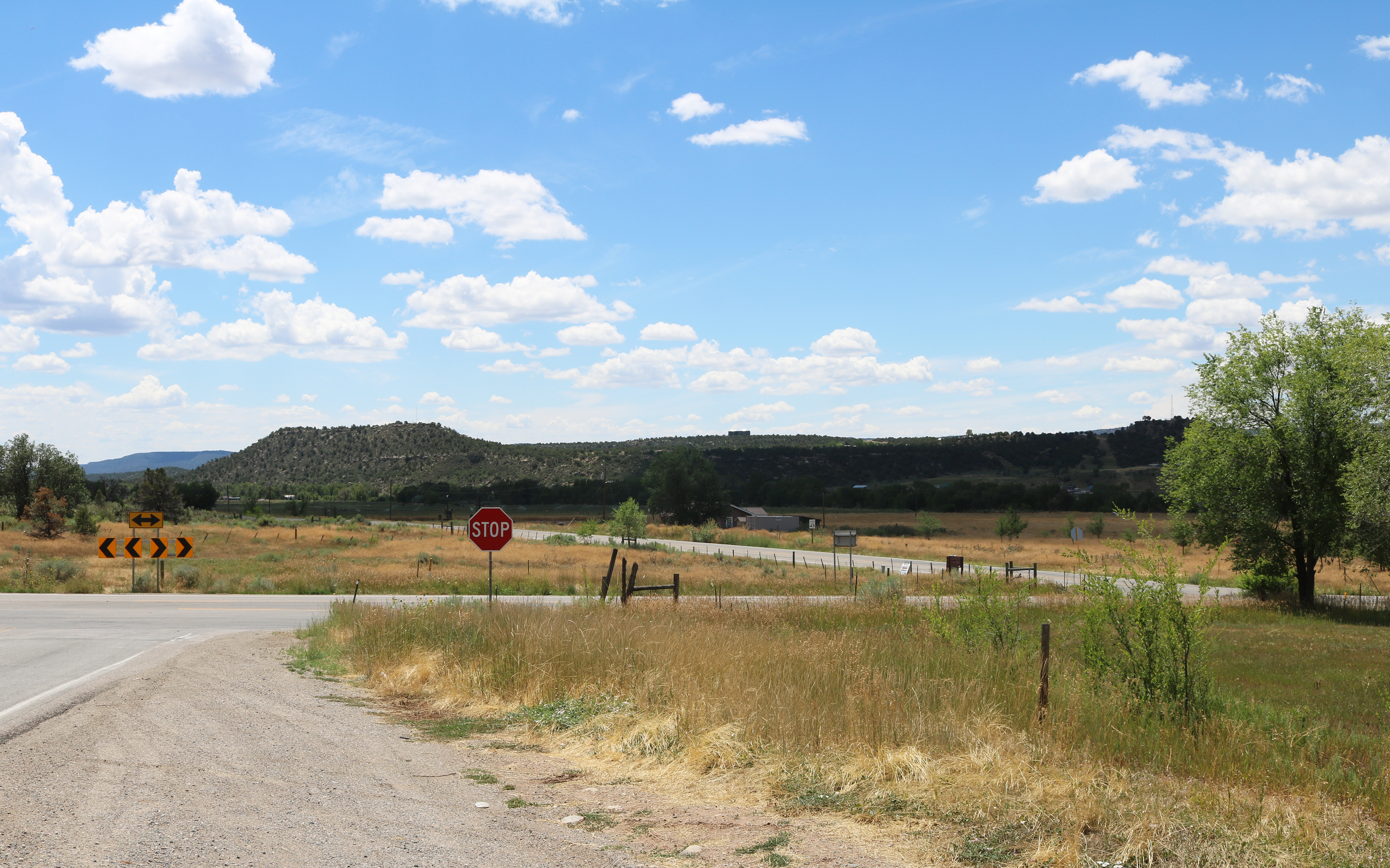 Southern Ute, a census-designated place in La Plata County, Colorado. The picture shows Buck Highway (County Road 521) to the left of the camera. It intersects with Colorado State Highway 151, which goes left to right in the picture. The road that starts at the right and goes away from the camera is County Road 321. The Southern Ute census-designated place lies to the south (the other side in the picture) of State Highway 151.